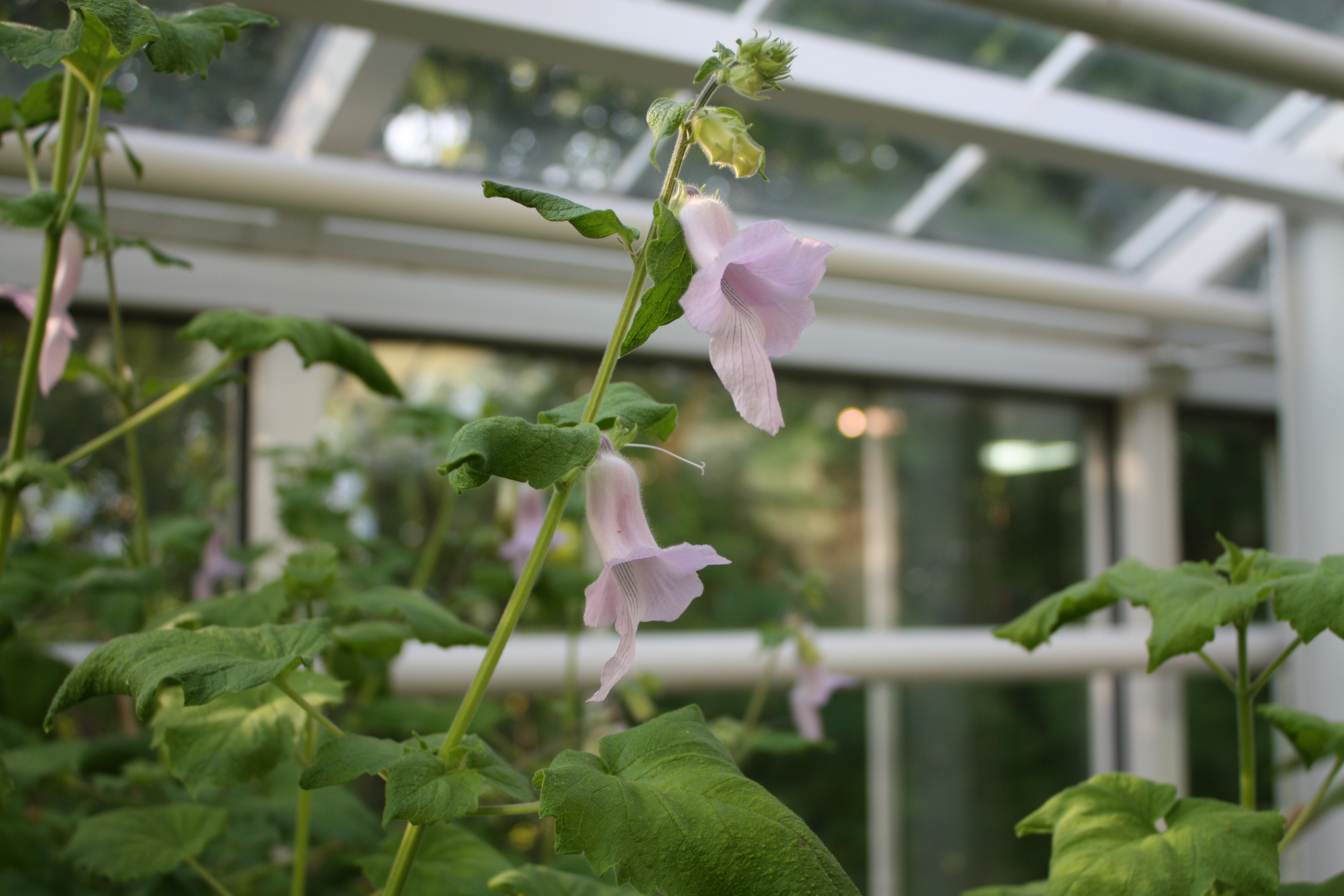 South African Foxglove (Ceratotheca triloba) in the Glasshouses of Kaisaniemi Botanical Garden in Helsinki, Finland